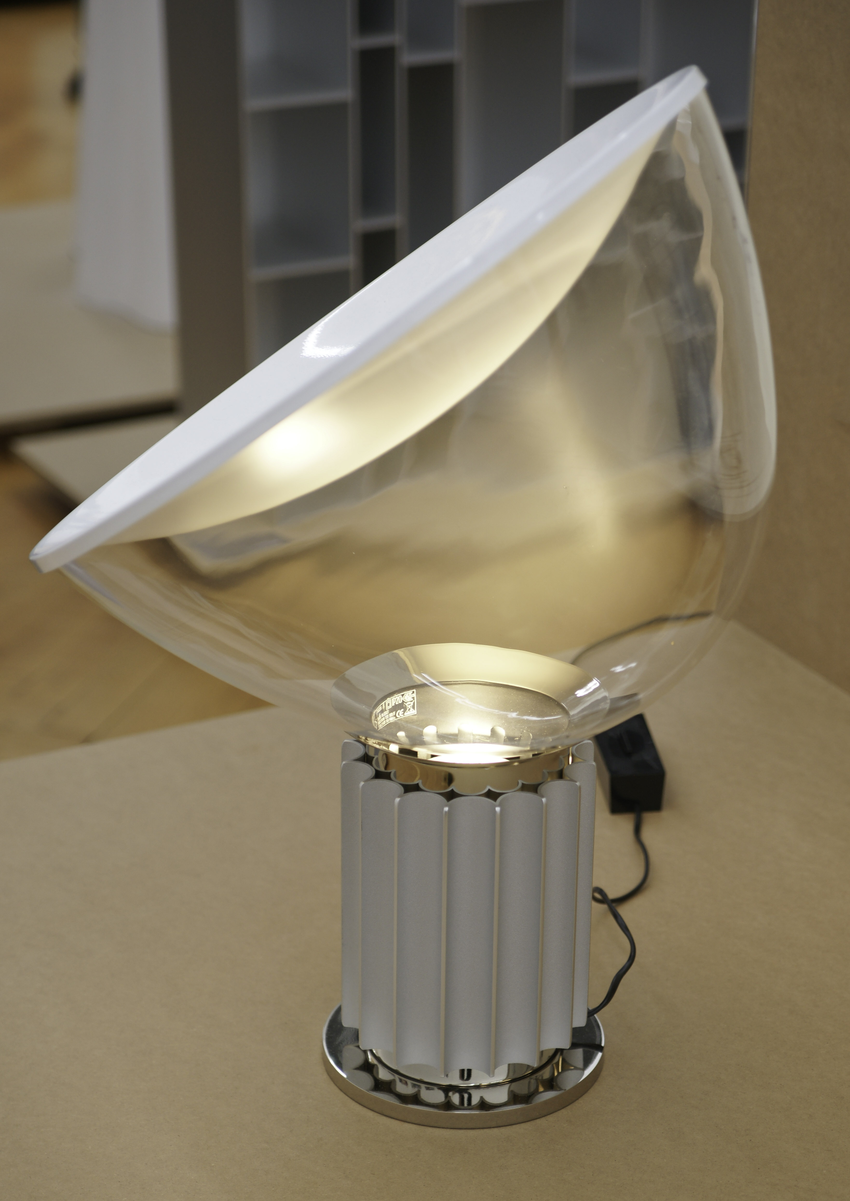 Lamp Taccia produced by Flos